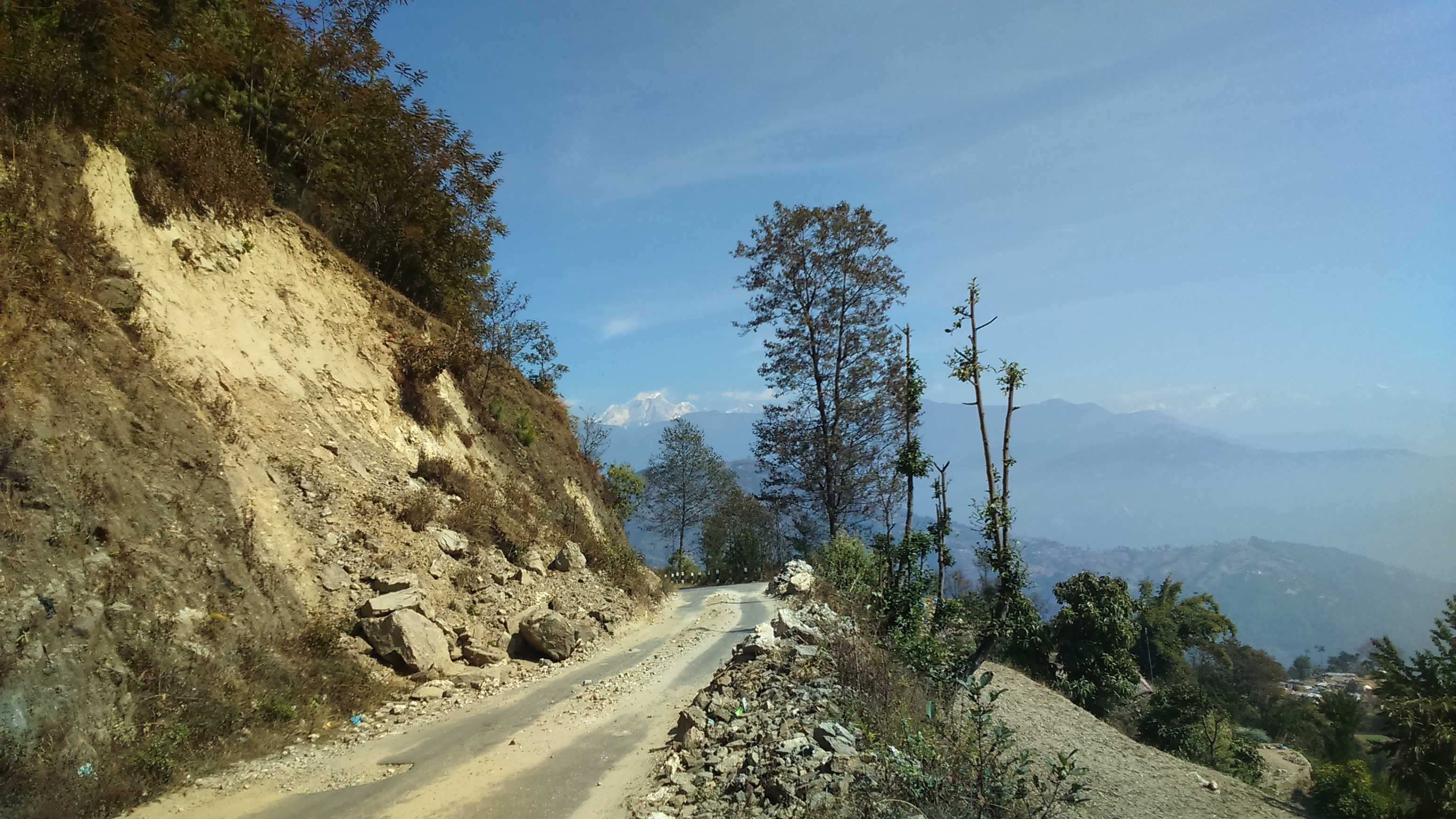 Mountain road in Nepal